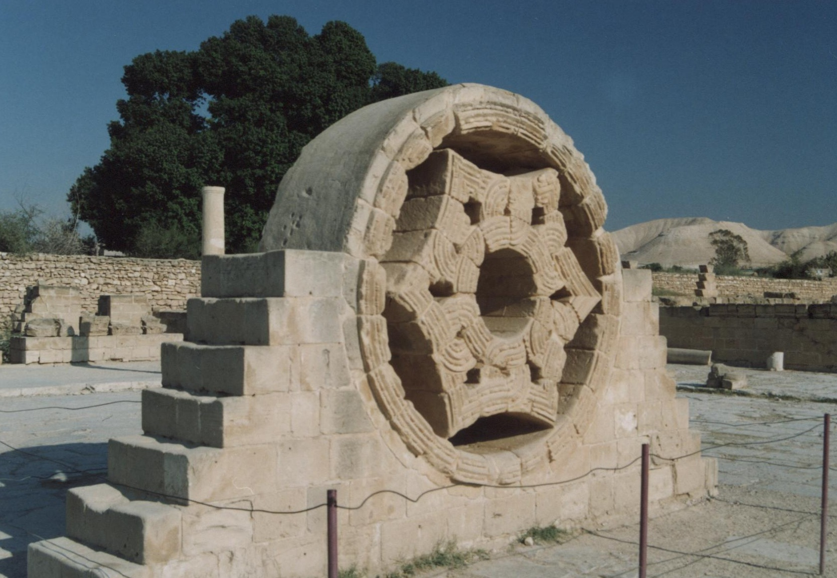 Hisham in Jericho, viewed from an angle. Would benefit from sharpening etc.